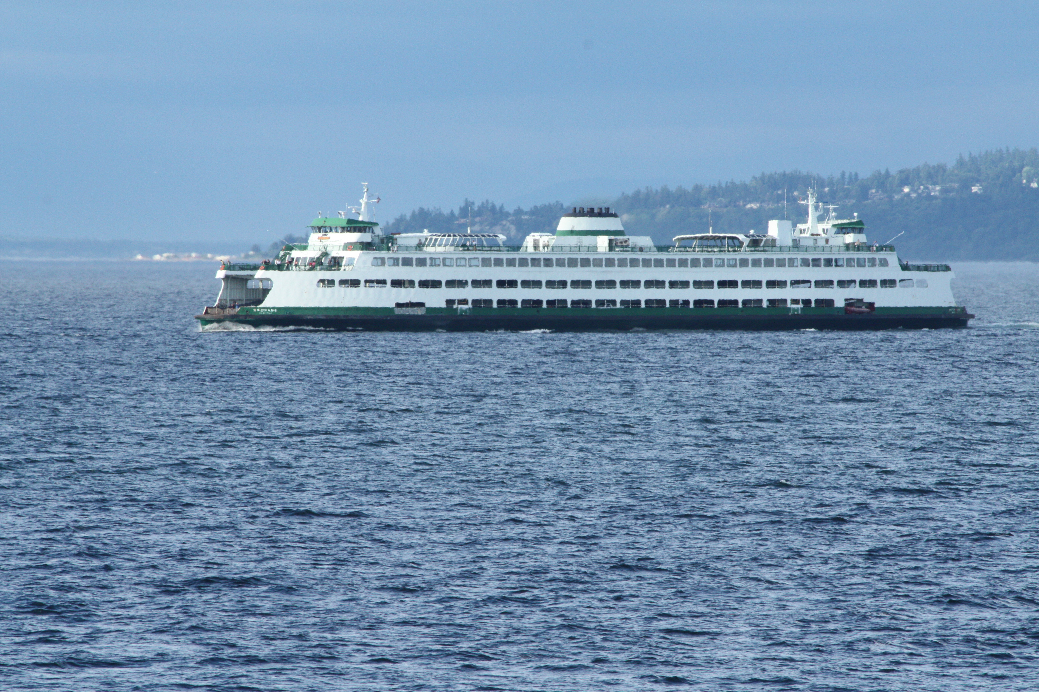 Washington State Ferry Spokane sailing from Edmonds to Kingston